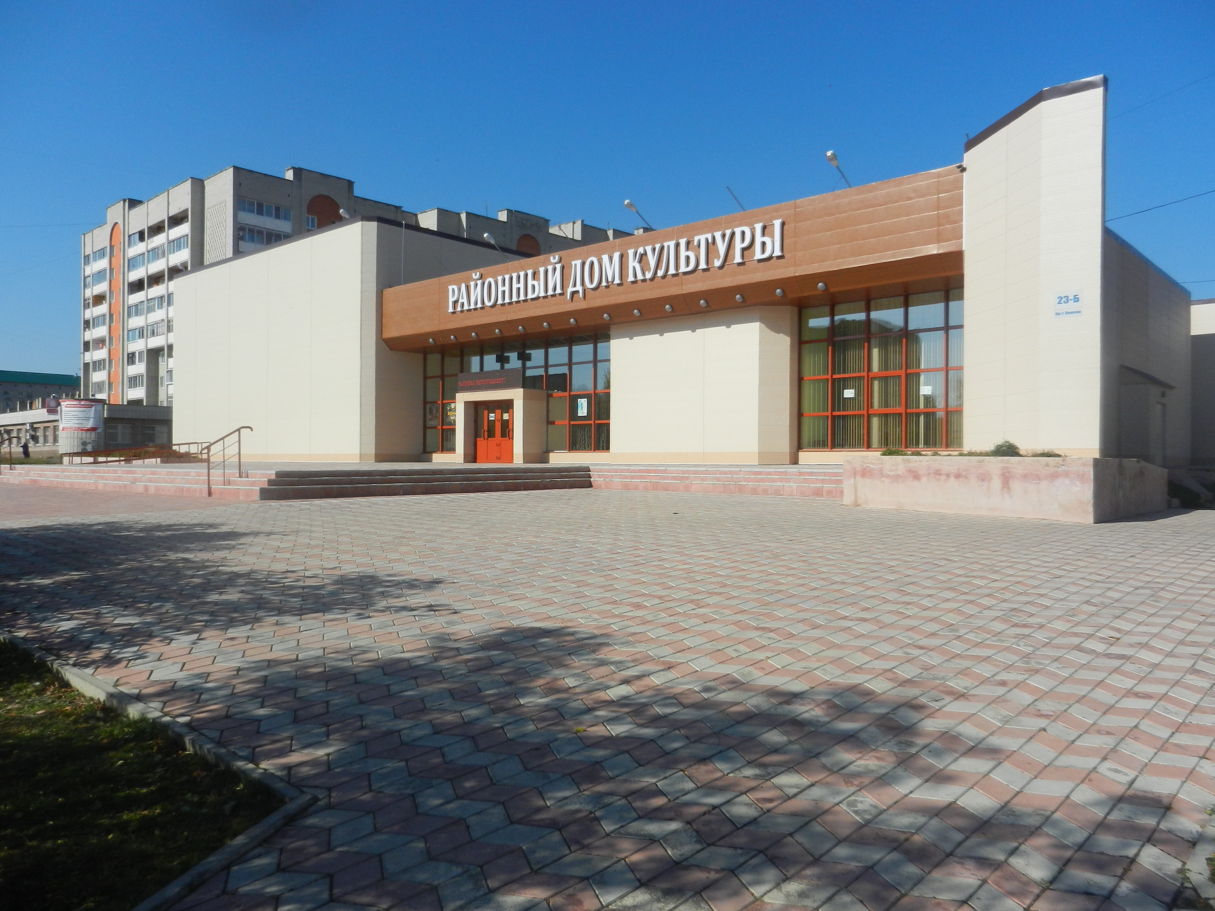 Solnecnii